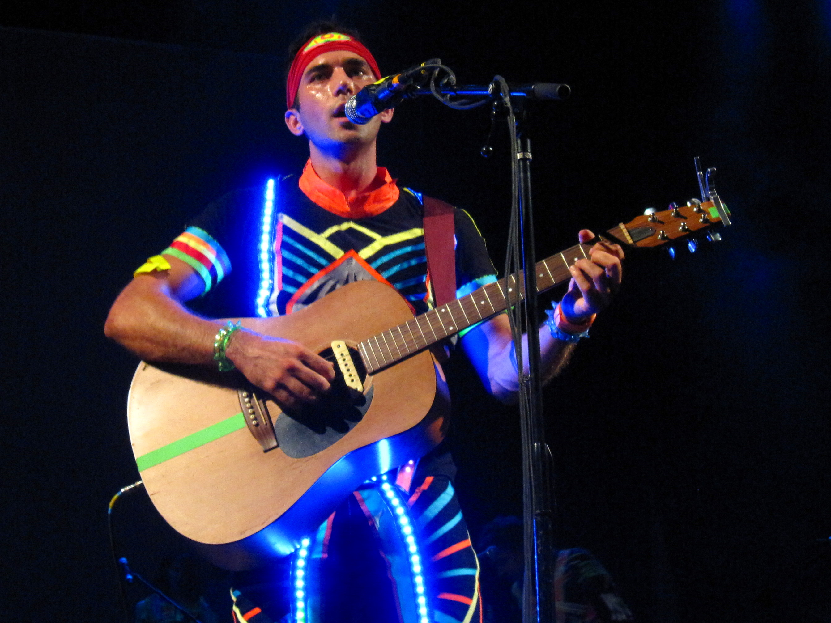 Sufjan Stevens, performing at the Celebrate Brooklyn festival